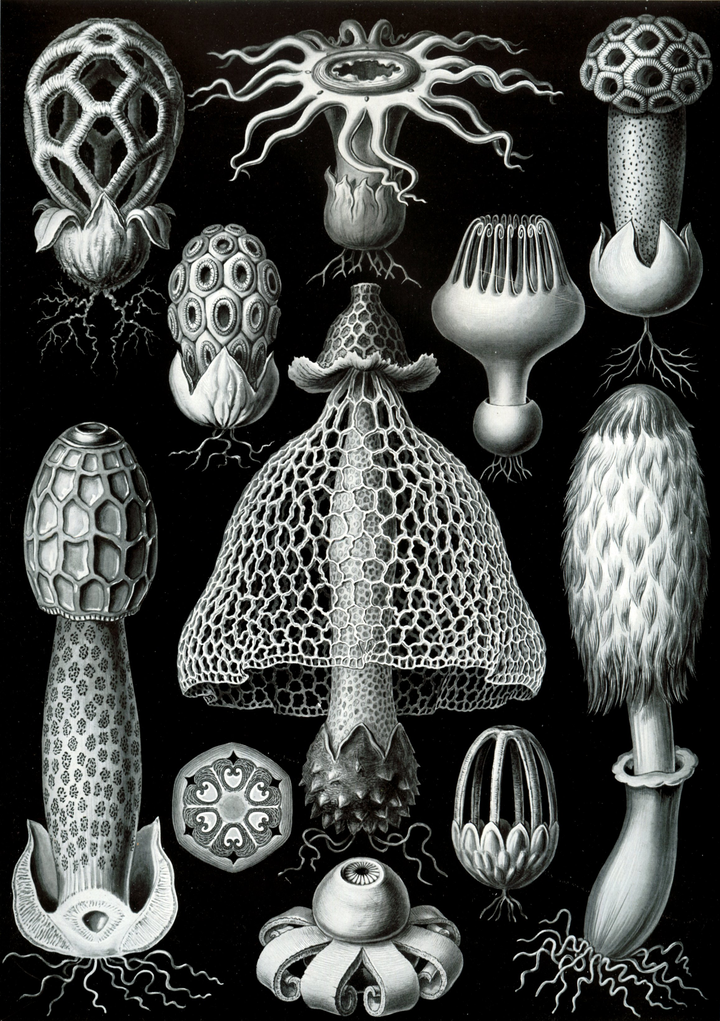 See here for index to numbers. Dictyophora madonna (Haeckel) = Phallus sp.?, mature fruiting body Phallus impudicus (Linné) = Phallus impudicus L., mature fruiting body with lengthwise section of volva Aseroë rubra (Billardière) = Aseroë rubra Labill., mature fruiting body Clathrus cancellatus (Tournefort) = Clathrus ruber P.Micheli ex Pers., mature fruiting body Clathrella crispa (E. Fischer) = Clathrus crispus Turpin, mature fruiting body Clathrella pusilla (E. Fischer) = Clathrus pusillus Berk., mature fruiting body Calathiscus sepia (Montague) = Lysurus sp.?, mature fruiting body Simblum sphaerocephalum (Klotsch) = Category:Lysurus periphragmoides (Klotzsch) Dring, mature fruiting body Anthurus borealis (Burton) = Lysurus borealis (Burt) Henn., young fruiting body in cross-section Geaster multifidus (Micheli) (non Pers.: preoccupied) = Geastrum sp., mature fruiting body Coprinus comatus (Müller) = Coprinus comatus (O.F.Müll.) Pers., mature fruiting body